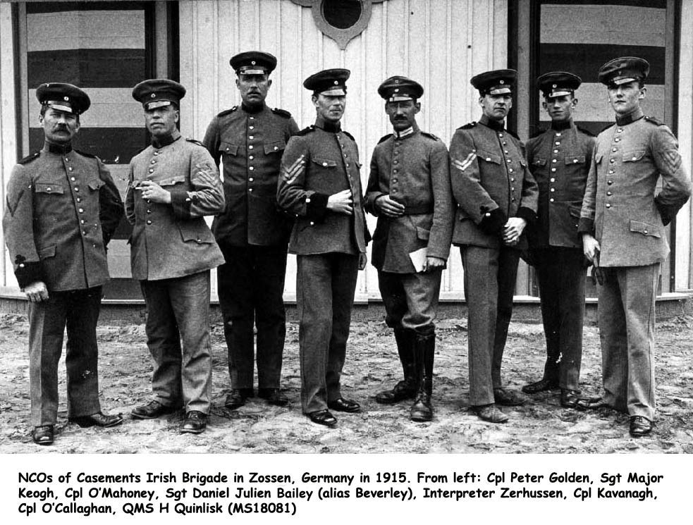 The Irish Brigade in Zossen The Irish Brigade, raised by Casement from Irish Prisoners of War in Germany, is hard to research as none of those involved seemed to want to be linked to the Irish Brigade after the war. Neither the men nor their families, nor their regimental histories, nor the British Army nor the British nor the Irish governments, nor the Republican organisations. The whole enterprise sank into obscurity. Nobody wanted to know. Some of the men left memoirs but very little was actually printed, and their own stories have remained hidden in attics or thrown out as rubbish. One can however recover a lot of what happened with the Irish Brigade. Apart from the extensive writings by Keogh, Kavanagh and Monteith, there is Plunkett's diary, Casement's writings and the German records unearthed by Doerries. I have read the original records made by Rahilly, McDonagh, Mahony, Quinlisk and Meade. Plus service records and their family input from Bailey, Burke, Daly, Delamore, Forde, Golden, Greer, Kennedy, Long, McCabe, Murphy J, O'Callaghan J, Sweeny P